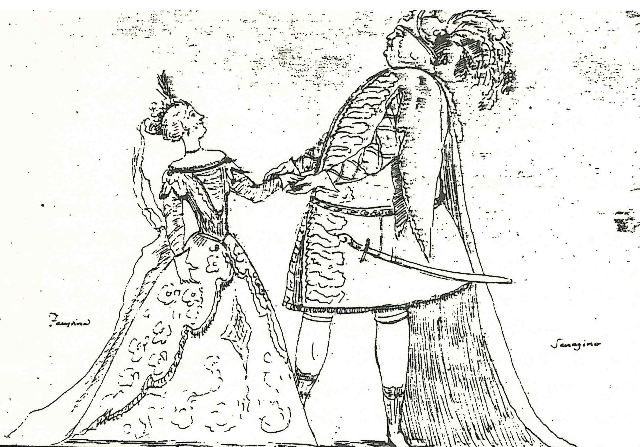 Star soprano and primadonna Faustina Bordoni and contralto castrato Francesco Bernardi, better known under his artist name Senesino, together on stage in Venice in 1729. Caricature by Antonio Maria Zanetti (1679–1767) In the carneval season 1728-1729 Bordoni and Senesino were both contracted to the Teatro Tron di San Cassano in Venice. There they performed together in the following two operas: Gianguir opera lirica von Geminiano Giacomelli (ca. 1692 - 25/01/1740) 1. Aufführung: 27. Dezember 1728 - Venezia, Teatro Tron di S. Cassano Bordoni als Semira, Senesino als Cosrovio Dokumentation bei Corago, Libretto Adelaide opera lirica von Giuseppe Maria Orlandini (04/04/1676 - 24/10/1760) 1. Aufführung: 08. Februar 1729 - Venezia, Teatro Tron di S. Cassano Bordoni in der Rolle der Adelaida (Primadonna), Senesino als Ottone (Primo uomo) Dokumentation bei Corago, Libretto